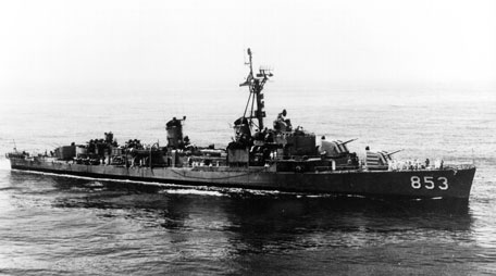 The U.S. Navy destroyer USS Charles H. Roan (DD-853) underway, circa in the 1950s.